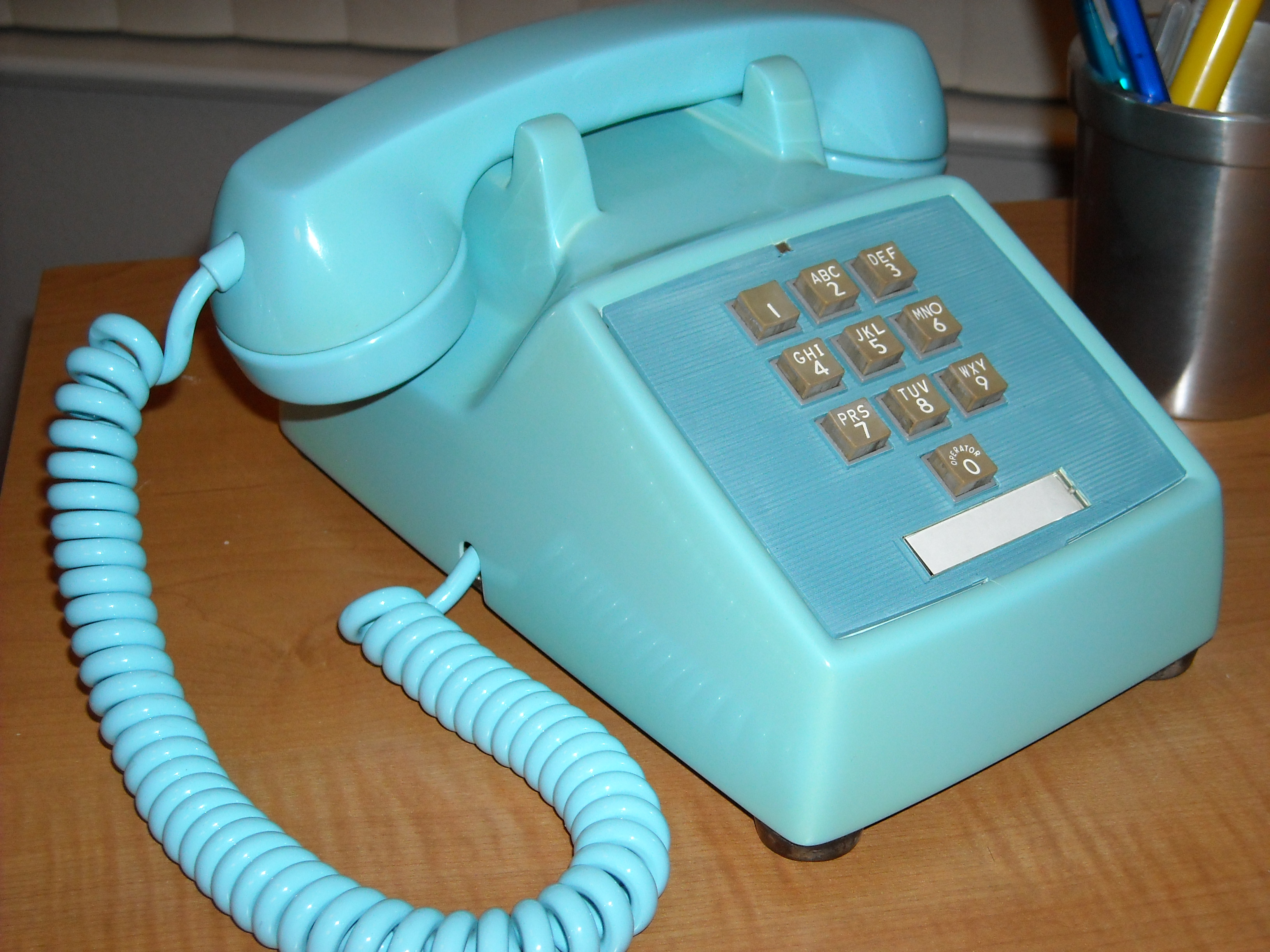 My own work of my own property.